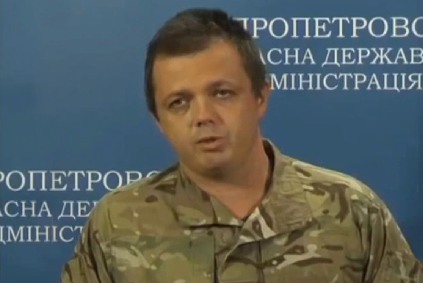 Semen Semenchenko, «Donbass» battalion commander, took off his balaclava first time in public during press-conference in Dnepropetrovsk on September 1, 2014.